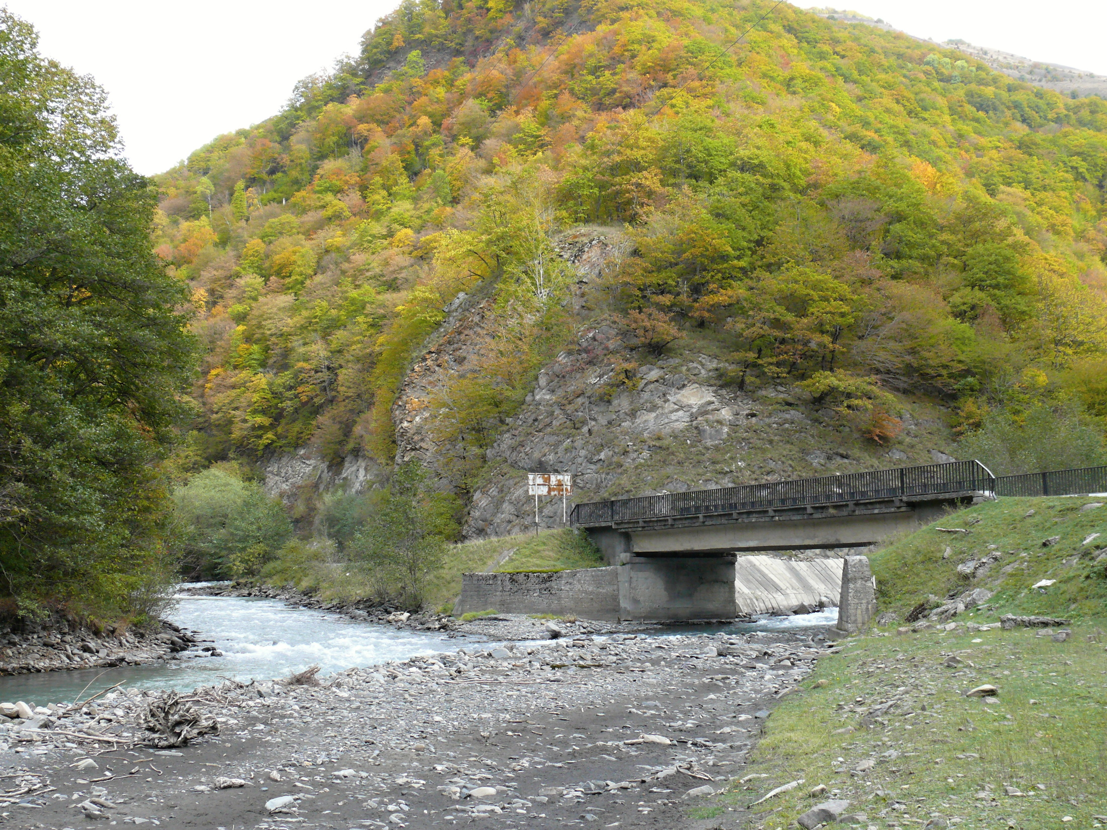 Khevsuretis Aragvi and Pshavis Aragvi confluence.